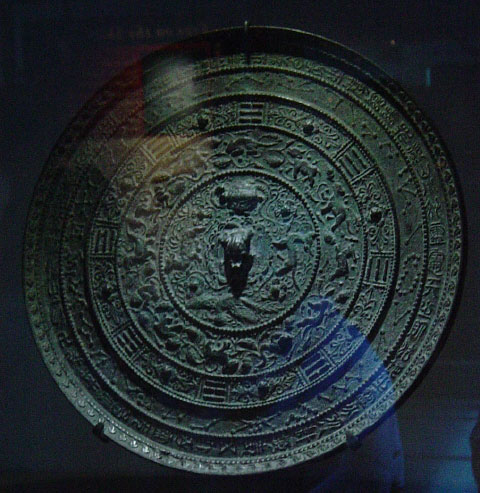 Bronze Mirror with Celestial symbols. Bronze Mirror Ming Dynasty (1368-1644 CE) Celestial symbols decorate the back of this bronze mirror. Mirrors like these were popular in the Tang Dynasty (618-907 CE), although this one was made several hundred years later. This picture was taken in July 2004 from an exhibition at Chabot Space & Science Center in Oakland, California. There is a ghostly reflection of a person in front of the glass case holding this exhibit.